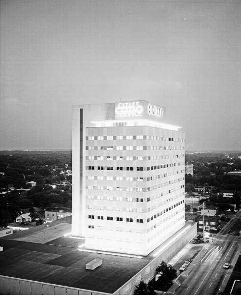 Photo from the Beryl Ford Collection at the Tulsa City-County Library.